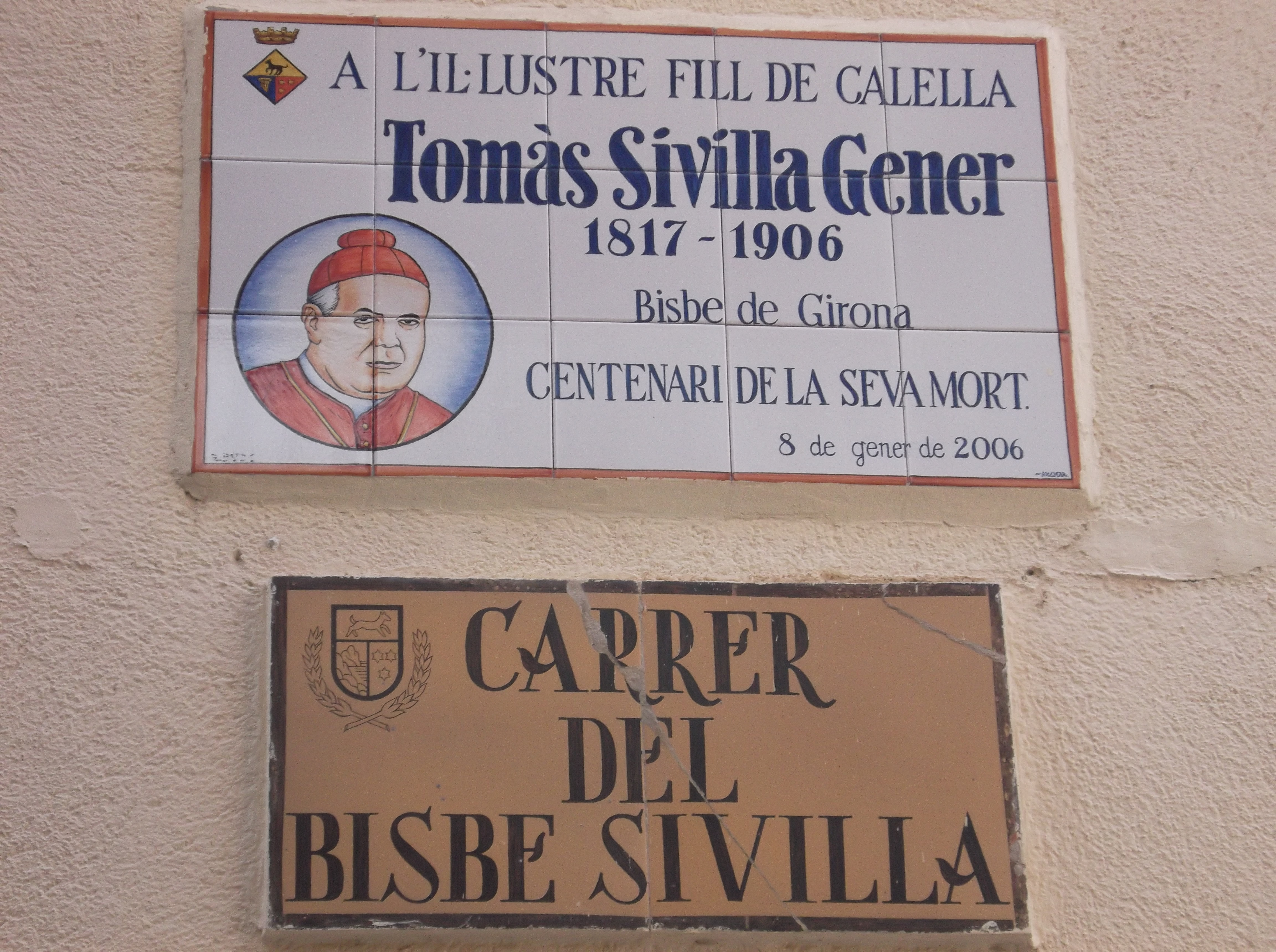 Commemorative plaque of the Catalan bishop Tomàs Sivilla in Calella (Catalonia)